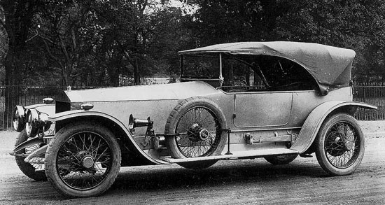 Rolls-Royce 40/45 H.P. ("Silver Ghost"), Chassis #2484, with Tourer coachwork by Cann Ltd. (1913).